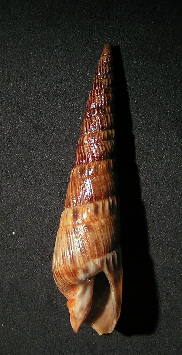 Oxymeris senegalensis (Lamarck, 1822) (synonym: Acus senegalensis); family Terebridae; Senegal